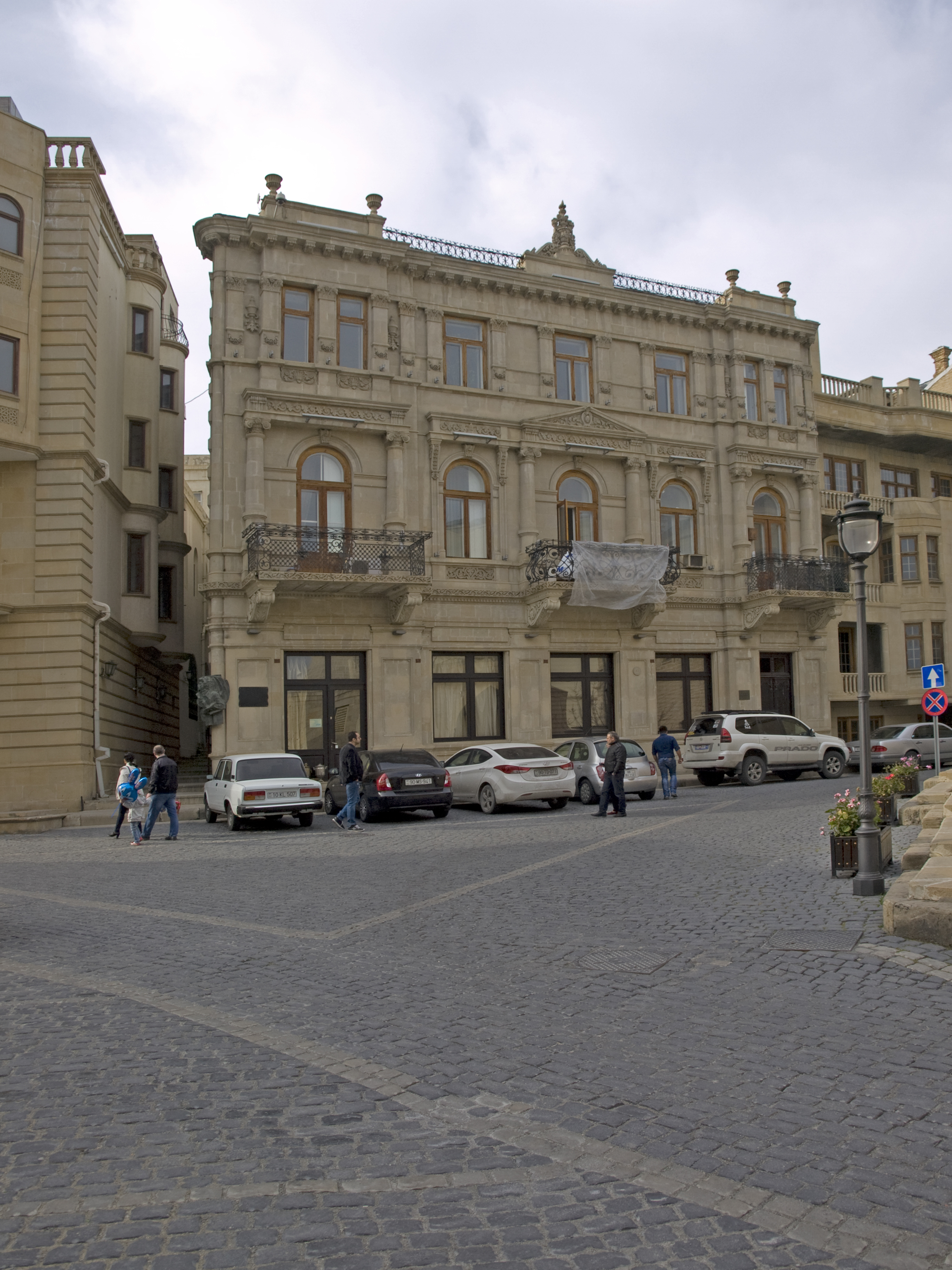 House where Vagif Mustafazade Museum is located, Baku